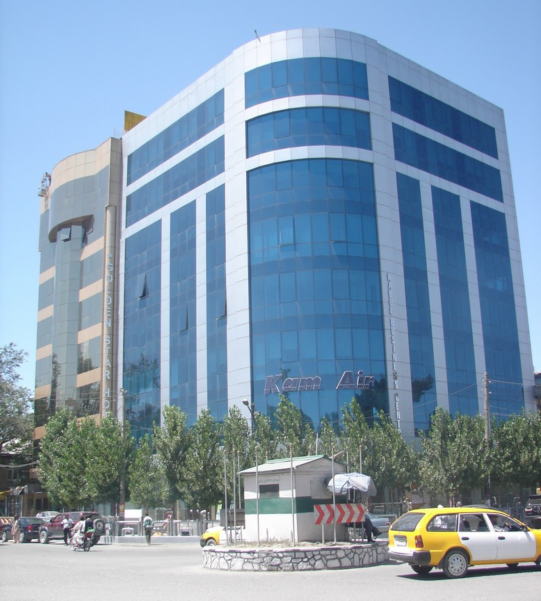 New building blocks in Kabul City